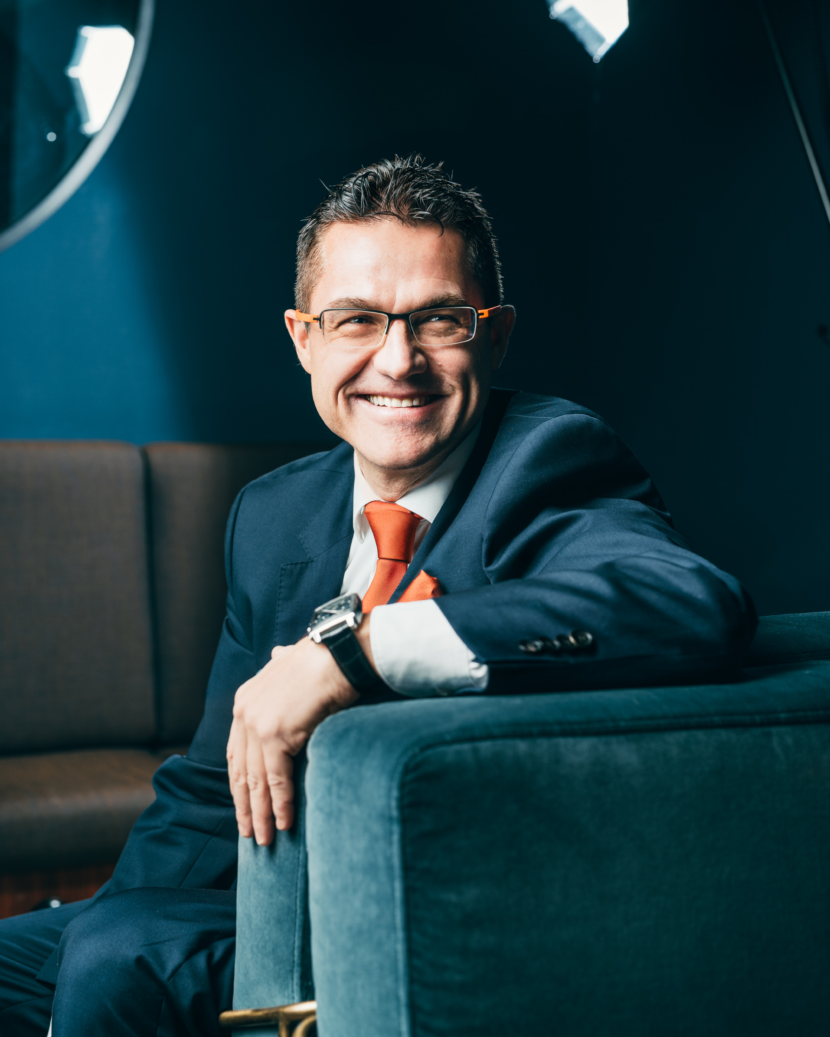 Sales coach Mika D. Rubanovitsch.